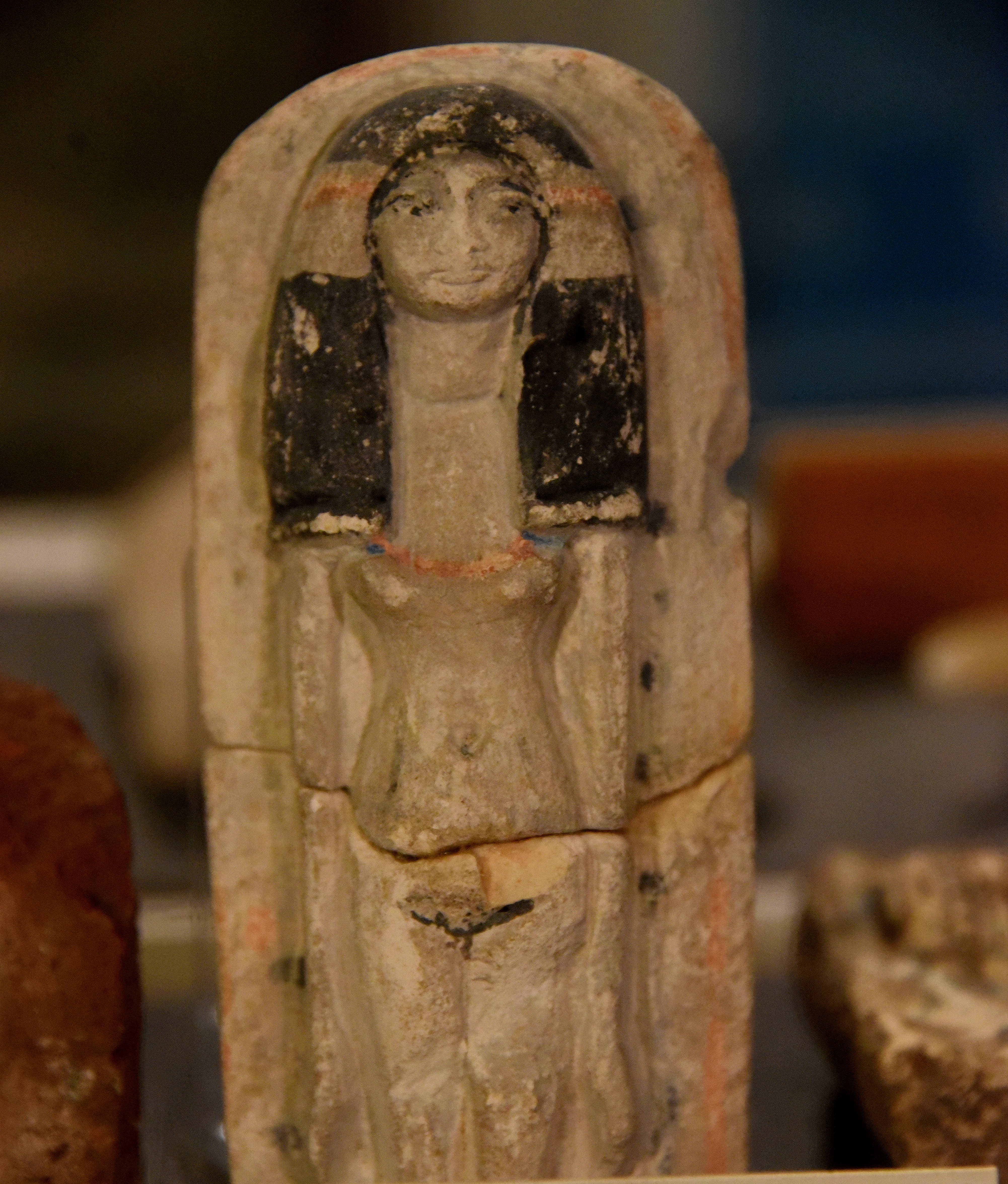 Woman on a couch. White limestone. Late 18th Dynasty. From Gurob, Fayum, Egypt. The Petrie Museum of Egyptian Archaeology, London. With thanks to the Petrie Museum of Egyptian Archaeology, UCL.